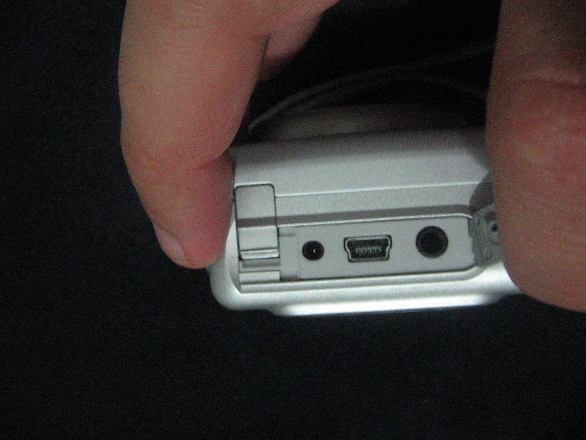 Canon PowerShot A520 digital camera, showing exposed DC input, USB cable and Audio/Video output slots